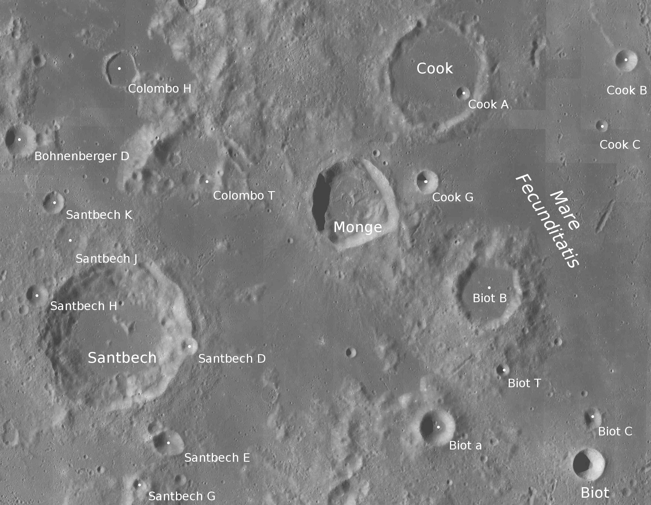 Craters Santbech, Monge, Cook and Biot (detail of LRO - WAC global moon mosaic; Mercator projection)